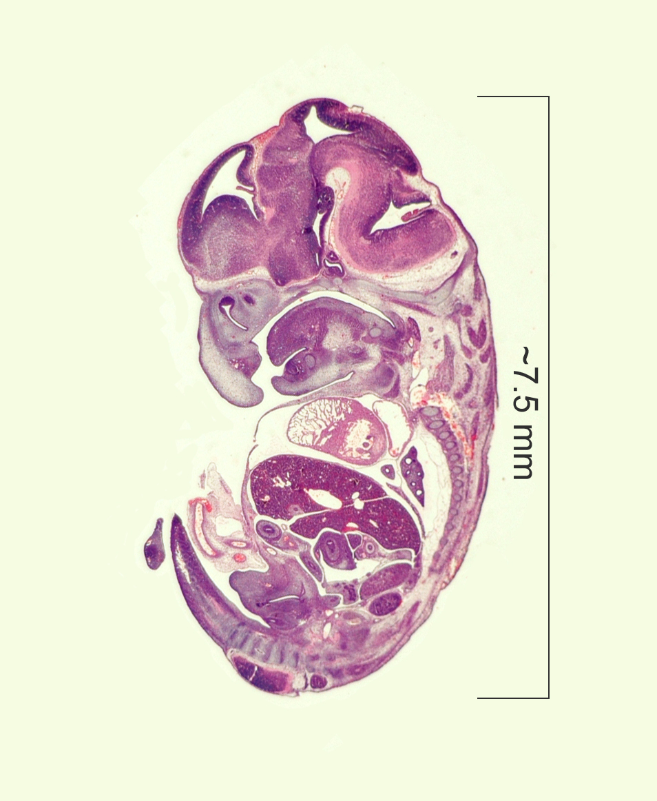 H&E staining of sagittal section of 10 days old mouse embryo